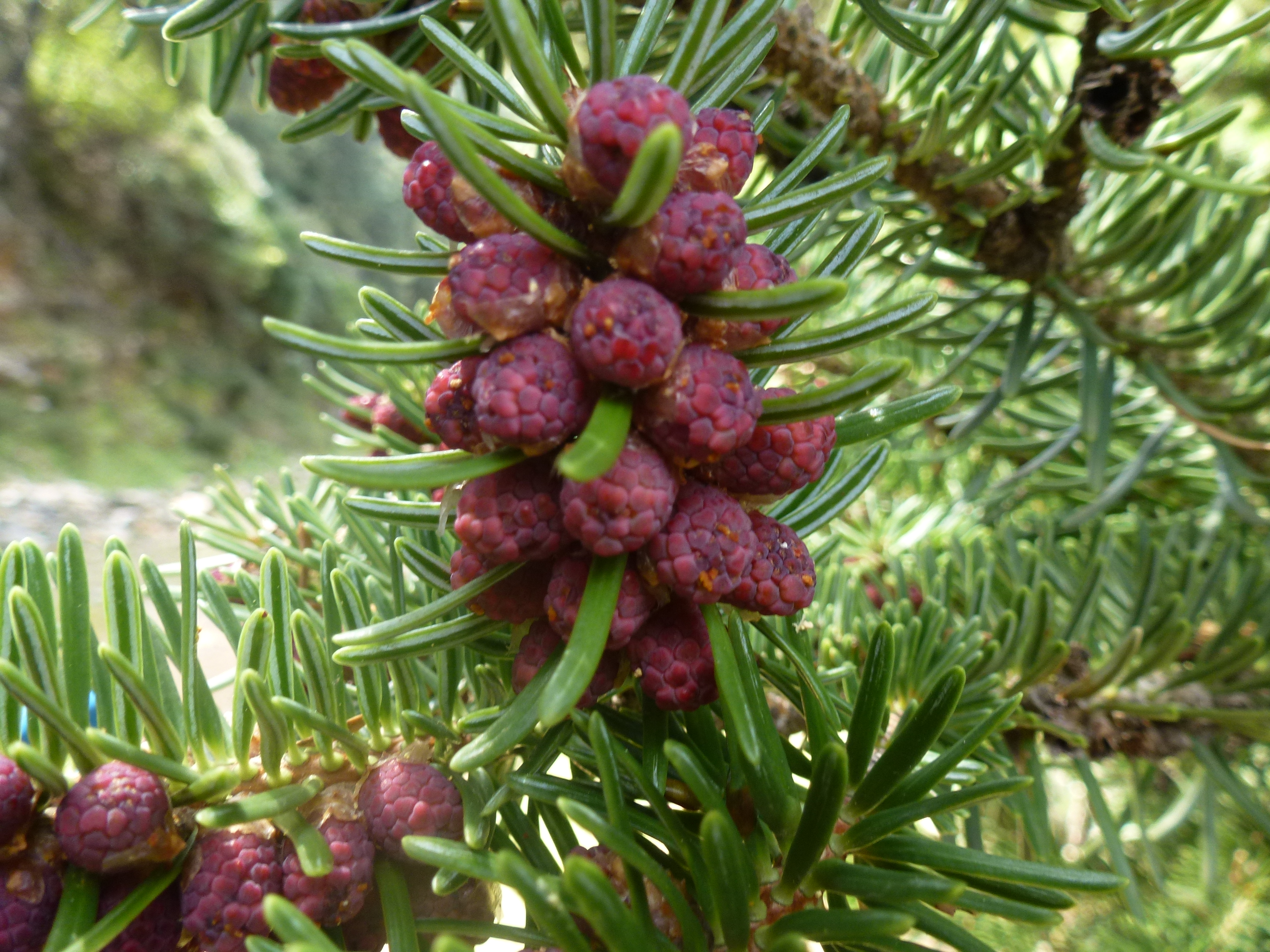 This is a photography of Natura 2000 protected area with ID GR2220002